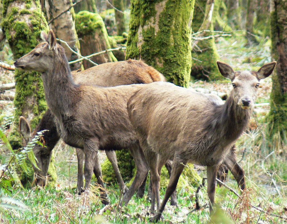 Some female red deer in Killarney National Park, County Kerry, Ireland.